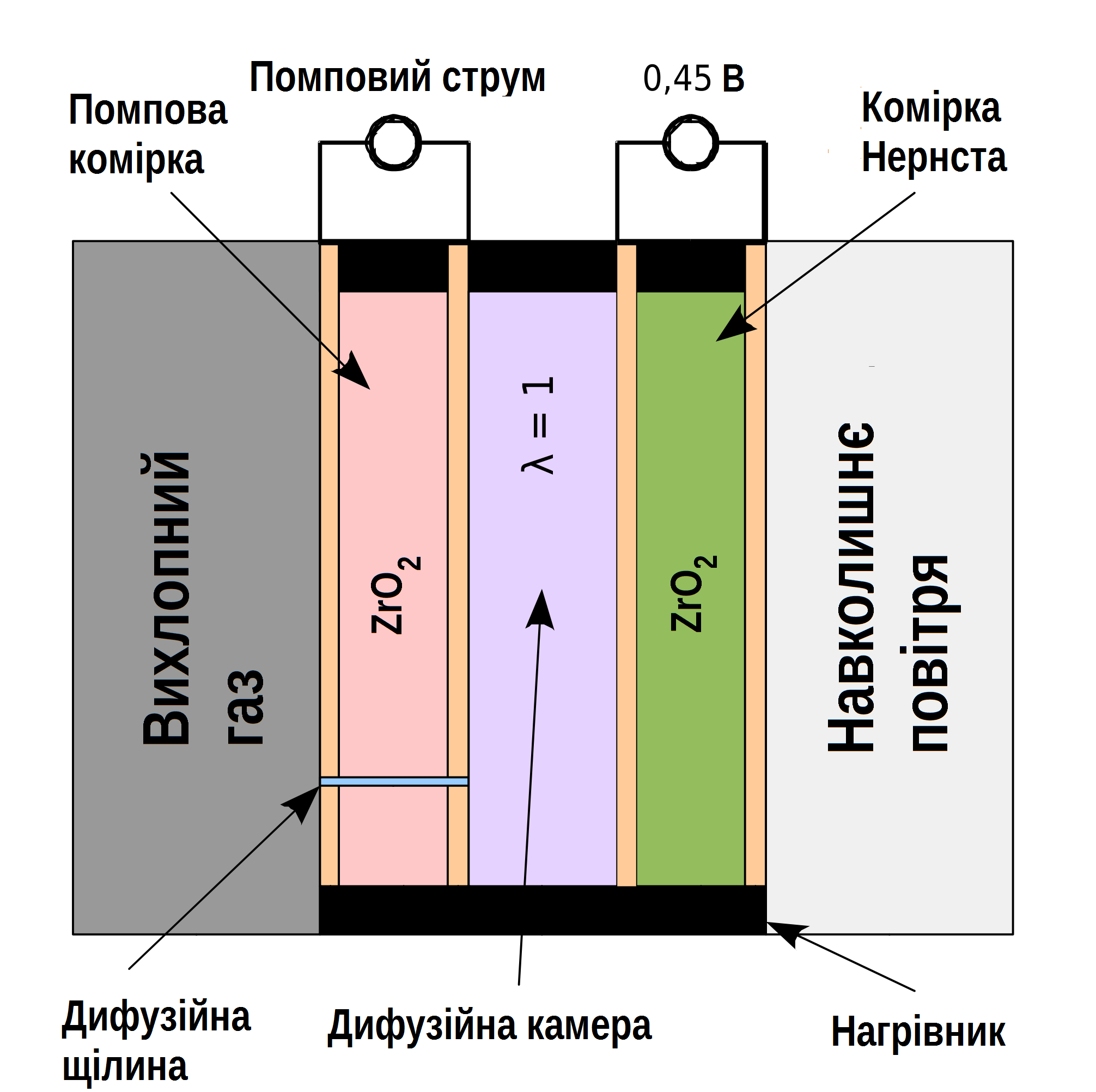 Wideband Zirconia Sensor